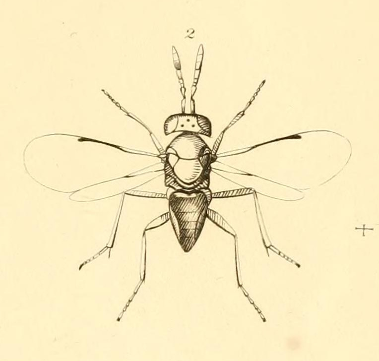 2 Aphelinus basalis mas Monographia Chalciditum 1: 2 a Antenna